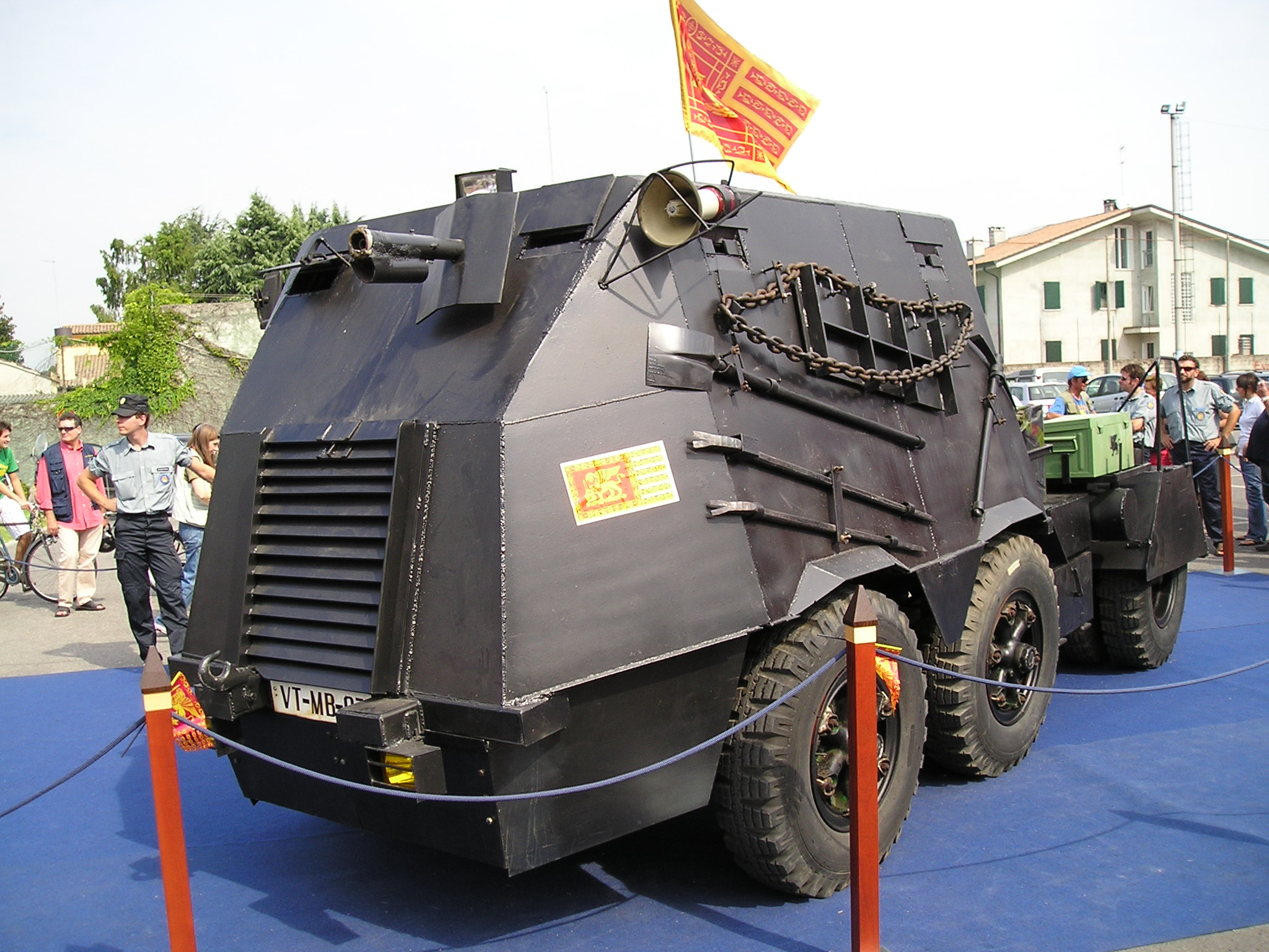 "Tanko" usato dai Serenissimi per l'assalto al campanile di San Marco il 9 maggio 1997. In mostra alla Festa dei Veneti a Cittadella il 3 settembre 2006. The so-called Tanko, used by the secessionist (so-called) "commando" Serenissimi to assault the San Marco Belltower in Venice, May 9, 1997. It is not a real tank, but a truck disguised as a tank. The group was captured by the Carabinieri's GIS. Photo taken at the Festa dei Veneti in Cittadella, Sep. 3, 2006.